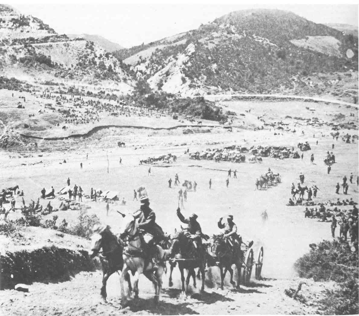 Greek advance in Kresna pass (Second Balkan War), 1913.